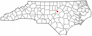 Category:North Carolina Dot Maps